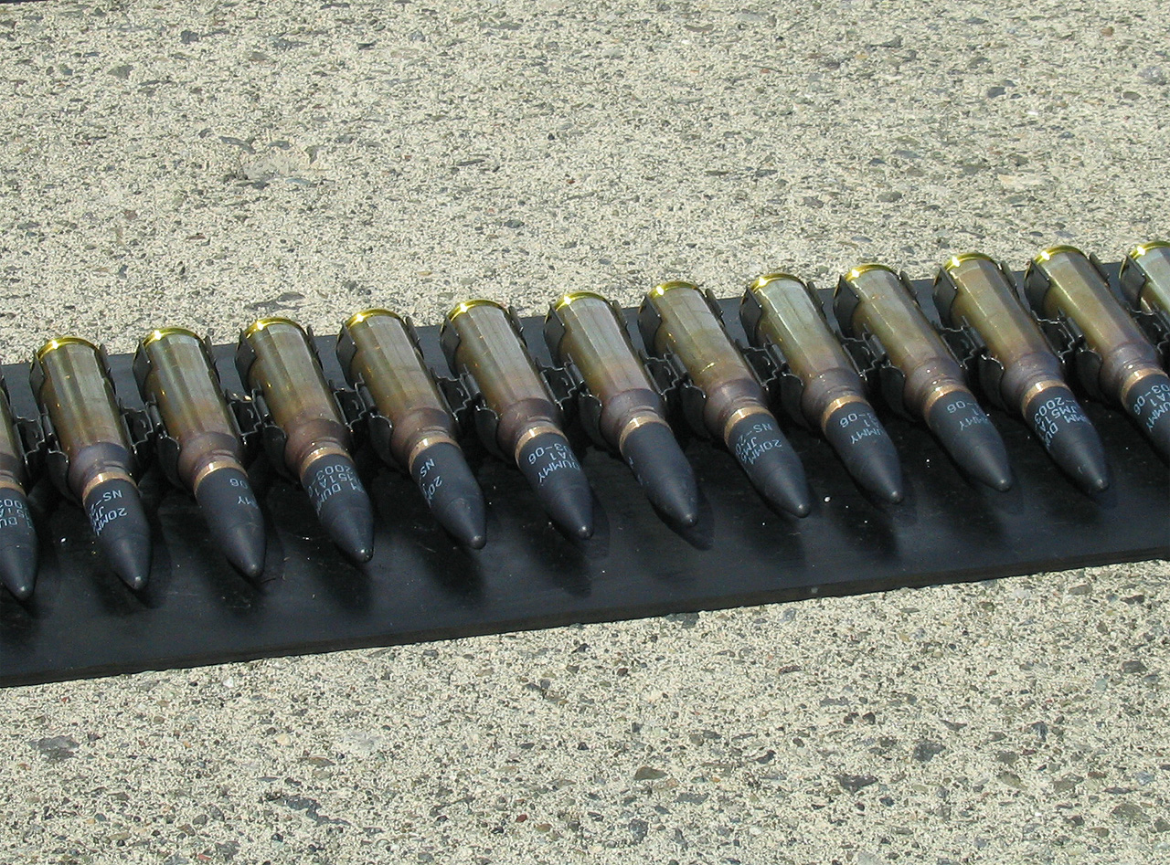 Closeup of M51A1 dummy 20 mm ammo belt for M61A1 vulcan.